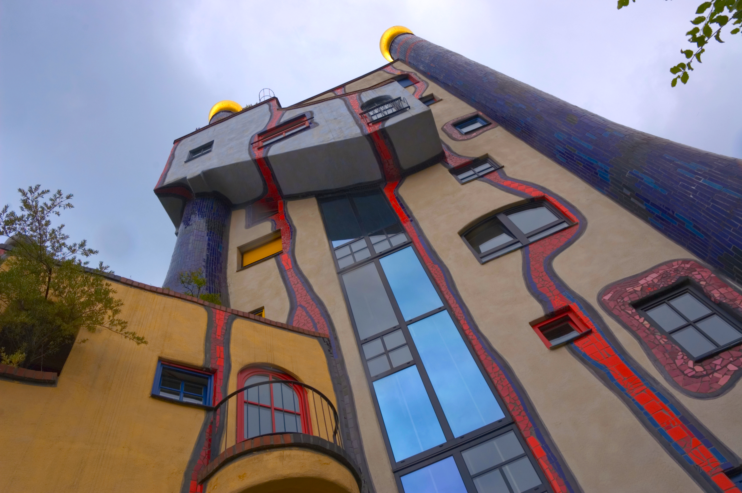 This image shows the Hundertwasserhaus in Plochingen, Germany, located near the railway station. Image colour profile is sRGB.